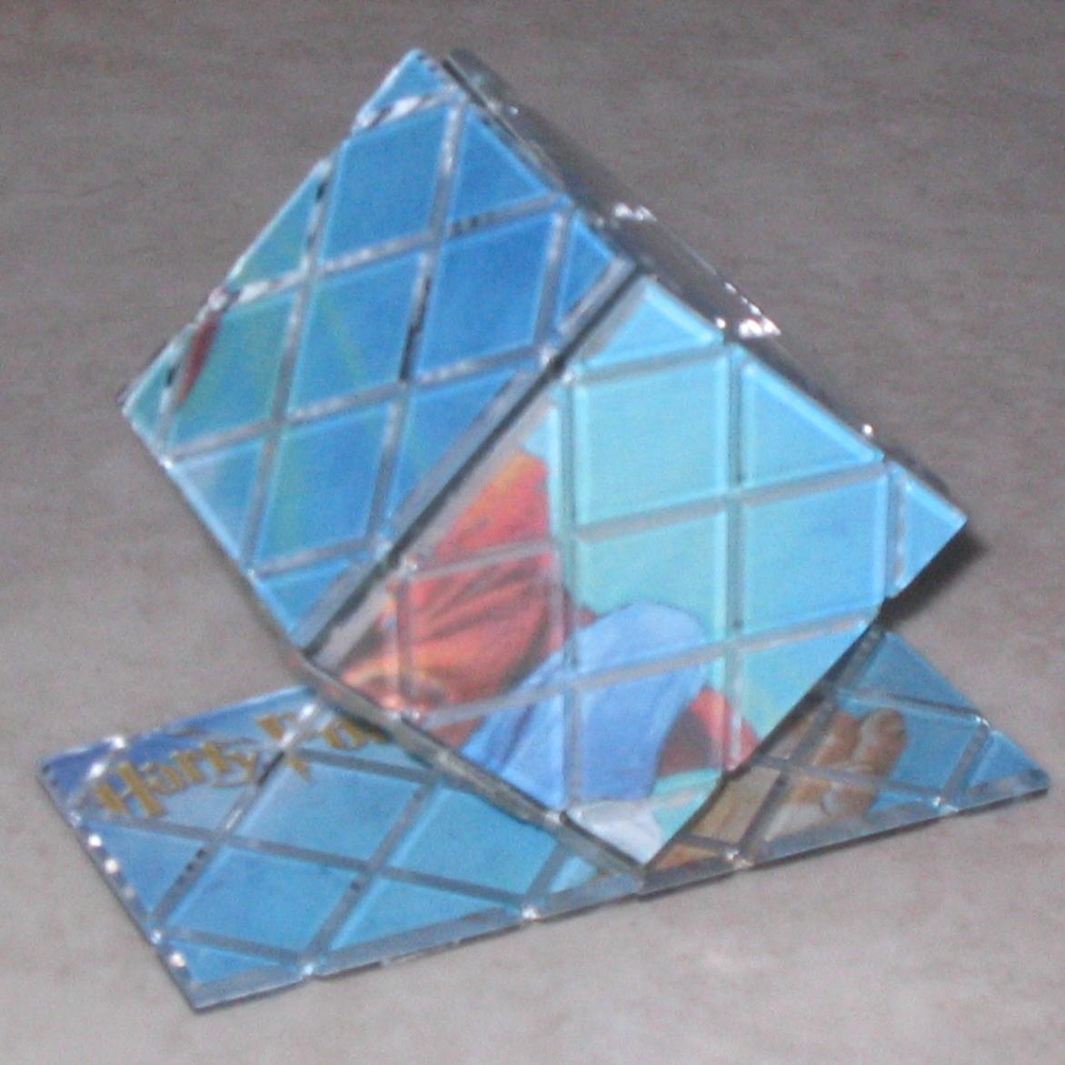 A Harry Potter-style Rubik's Magic in it's cube form.